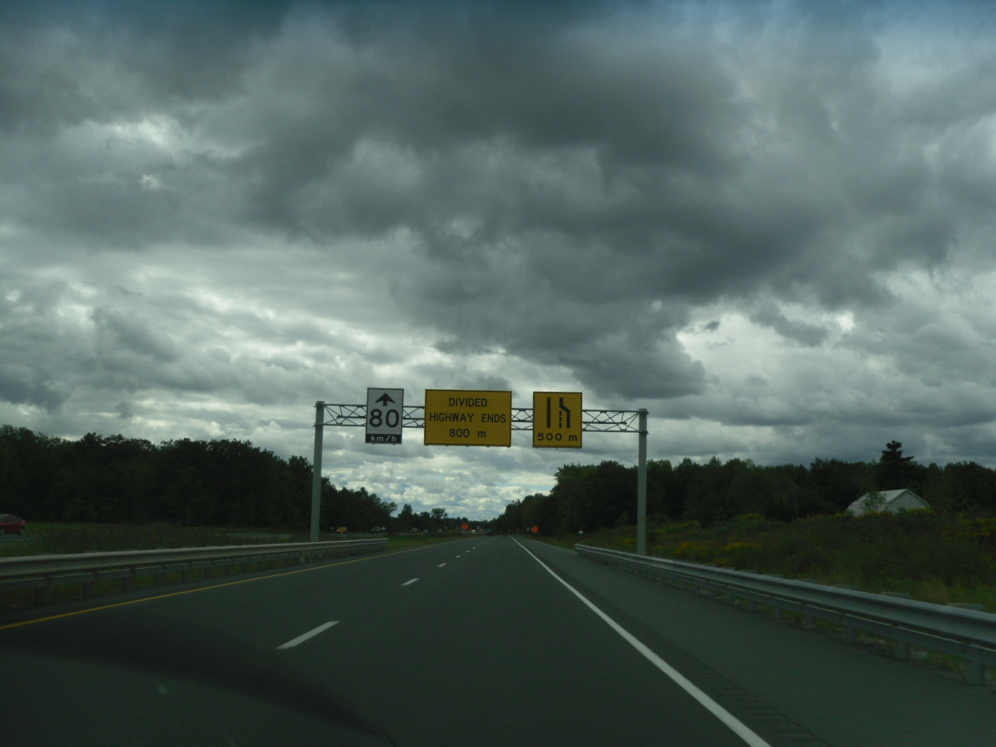 Highway 406 narrows